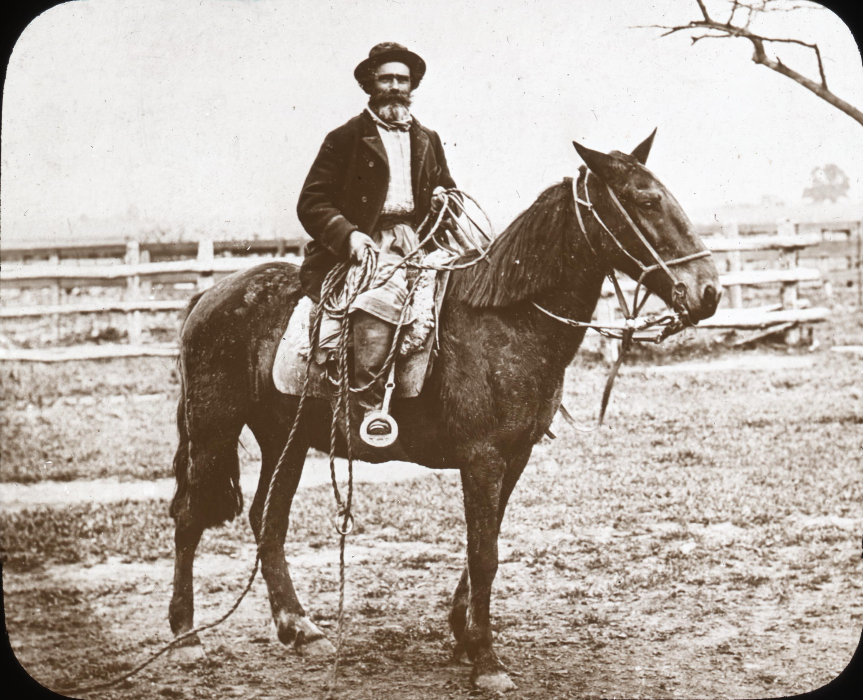 South American "Gaucho". Image description from historic lecture booklet: Harry Weston Van Dyke, in his book Through South America gives the following description of the South American cowboy: "With the cattle riders the gaucho, the cowboy of the pampas. Dressed in smart poncho (a sort of cape, with a hole for the head to go through), and bright hued zombachos, or wide Turkish trousers, tight-fitting boots, and sombrero, and sitting astride his saddle, richly ornamented with silver, he presents a sight worth seeing. To the gaucho the Camp is indebted for its only romance and picturesqueness; he has given to its songs and tales of adventure, its tragedies and the brightness of its life. Lithe and graceful, he is a consummate horseman and rivals his Texan counterpart in feats of horsemanship and skill with the lasso. He is proud, simple-minded, and faithful in his friendships, but when aroused to anger by a slight or by deceit, he is as elemental in his vengefulness as the early types of his race who ranged the pampas during the so-called medieval period of Argentine history. Needless to say, he has contributed his quota in the wars of the republic and has furnished the inspiration for many a stirring drama in the literature of the country."